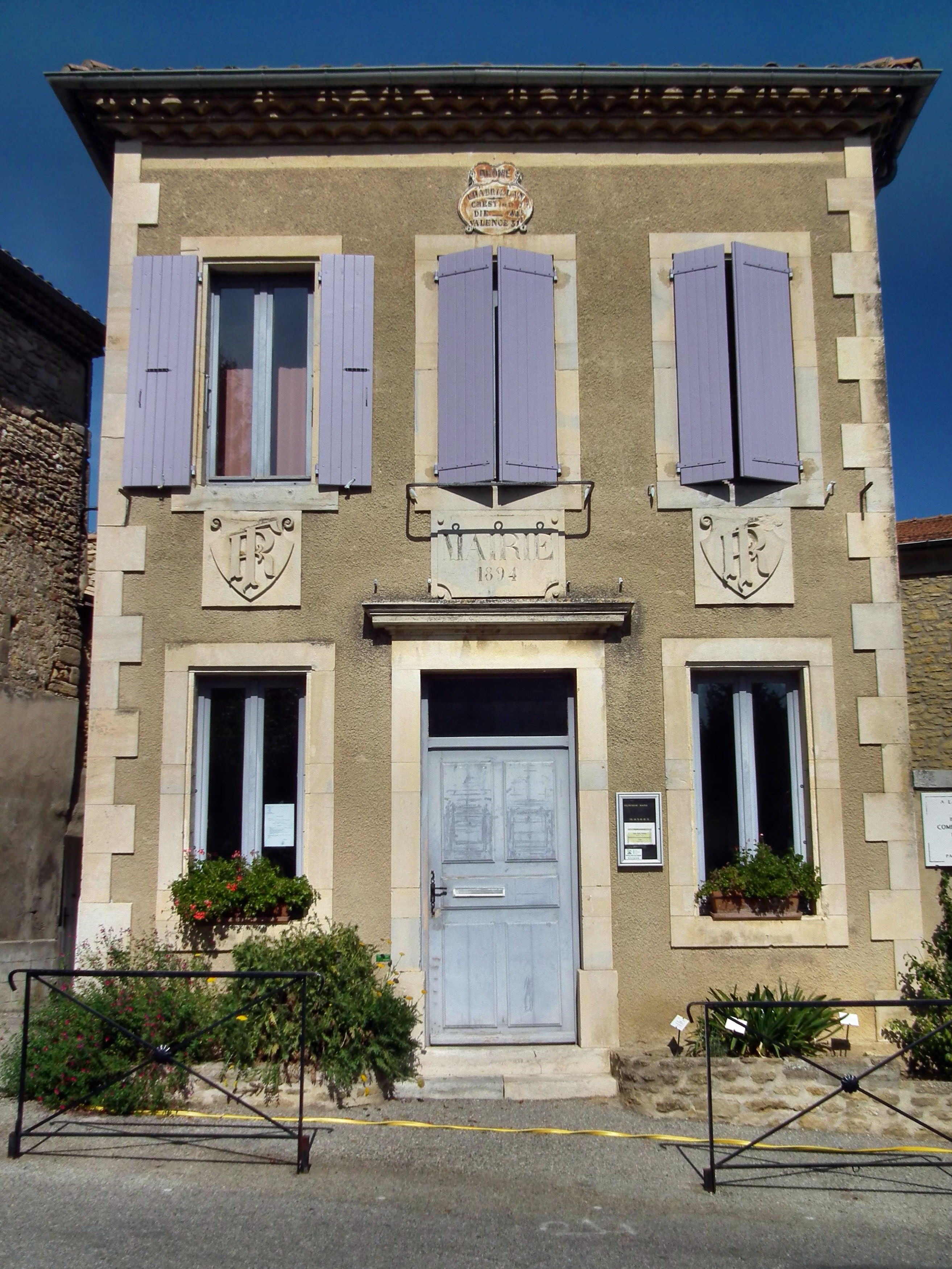 Town hall of Chabrillan - Drôme - France